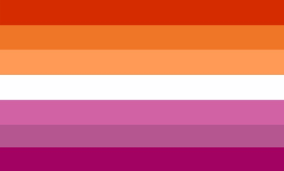 The lesbian community flag also features seven stripes whose meanings are, in descending order, gender-nonconformity (dark orange), independence (orange), community (pale orange), unique relationships to womanhood (white), serenity and peace (pale pink), love and sex (pink), and femininity (dark pink). It was created by Tumblr user sadlesbeandisaster in 2018 and was chosen as the top lesbian community flag in three online polls conducted through social media.